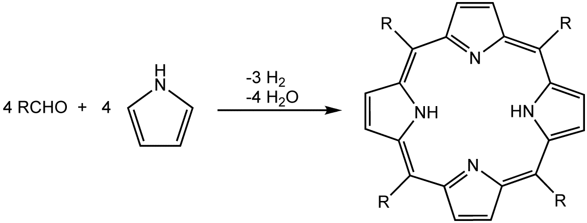 synthesis equation for porphyrins